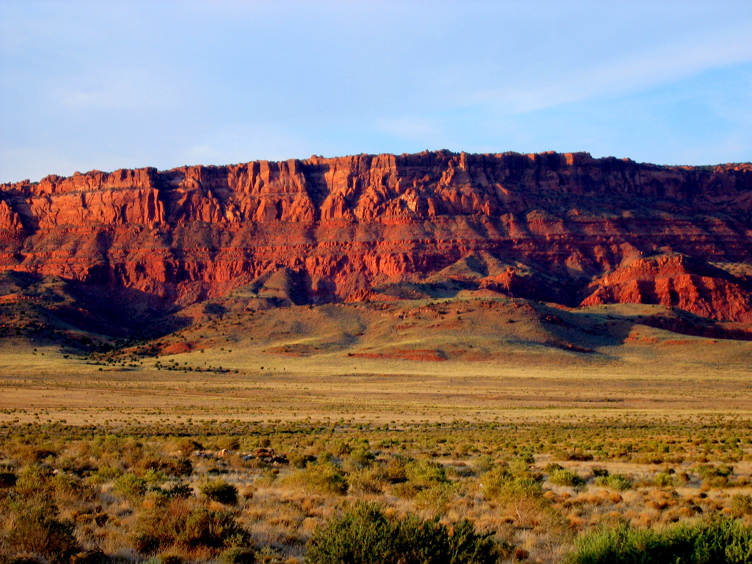 Vermilion Cliffs, Arizona – View to North East from Hwy 89, Arizona.